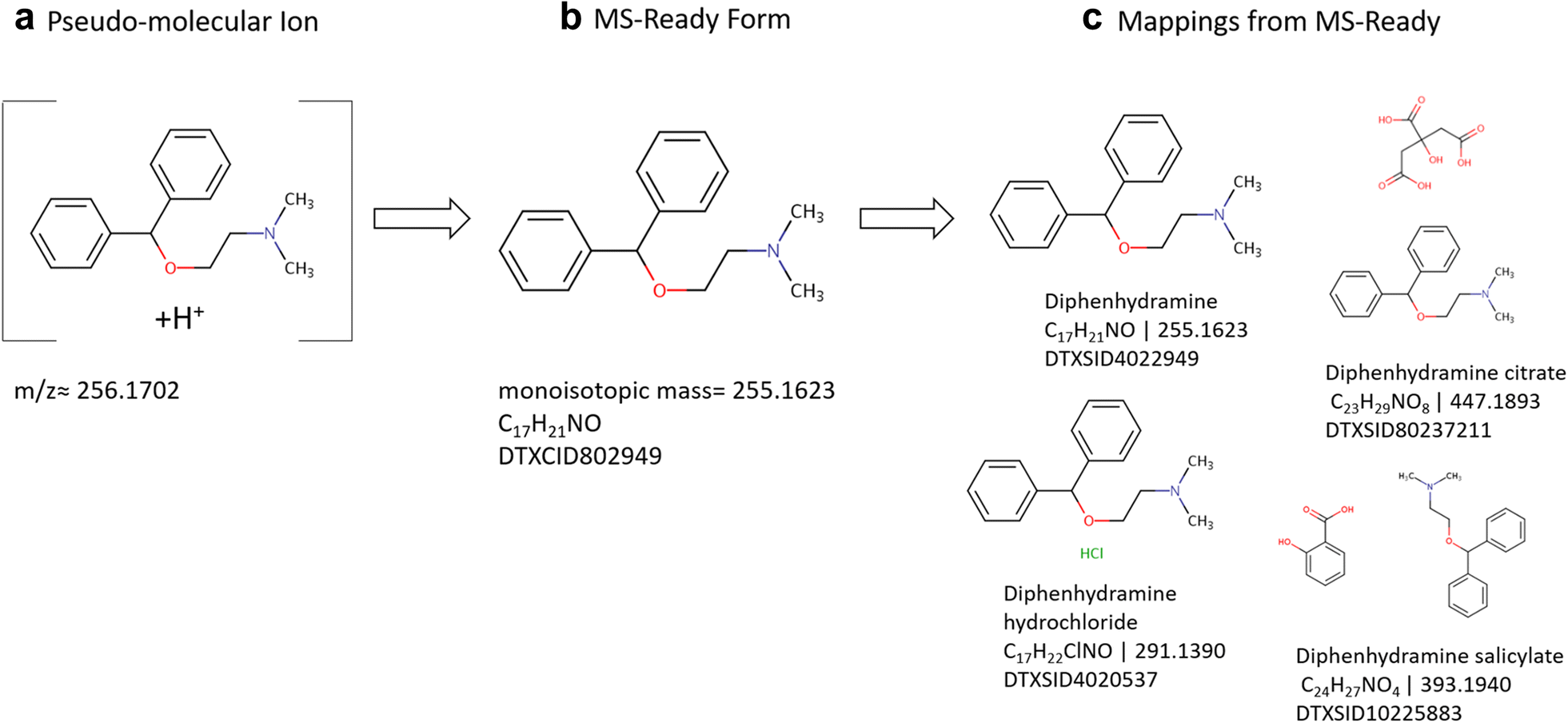 MS-Ready structures are produced by taking chemical forms and desalting, de-isotoping, and splitting of multi-component chemical forms into individual components